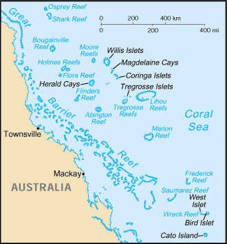 A map of the Coral Sea Islands, showing major islands.